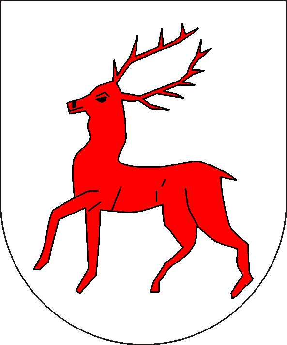 coat of arms